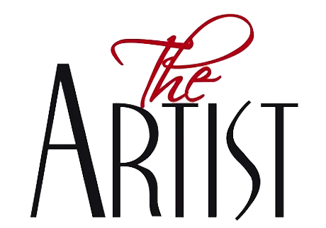 The Artist logo